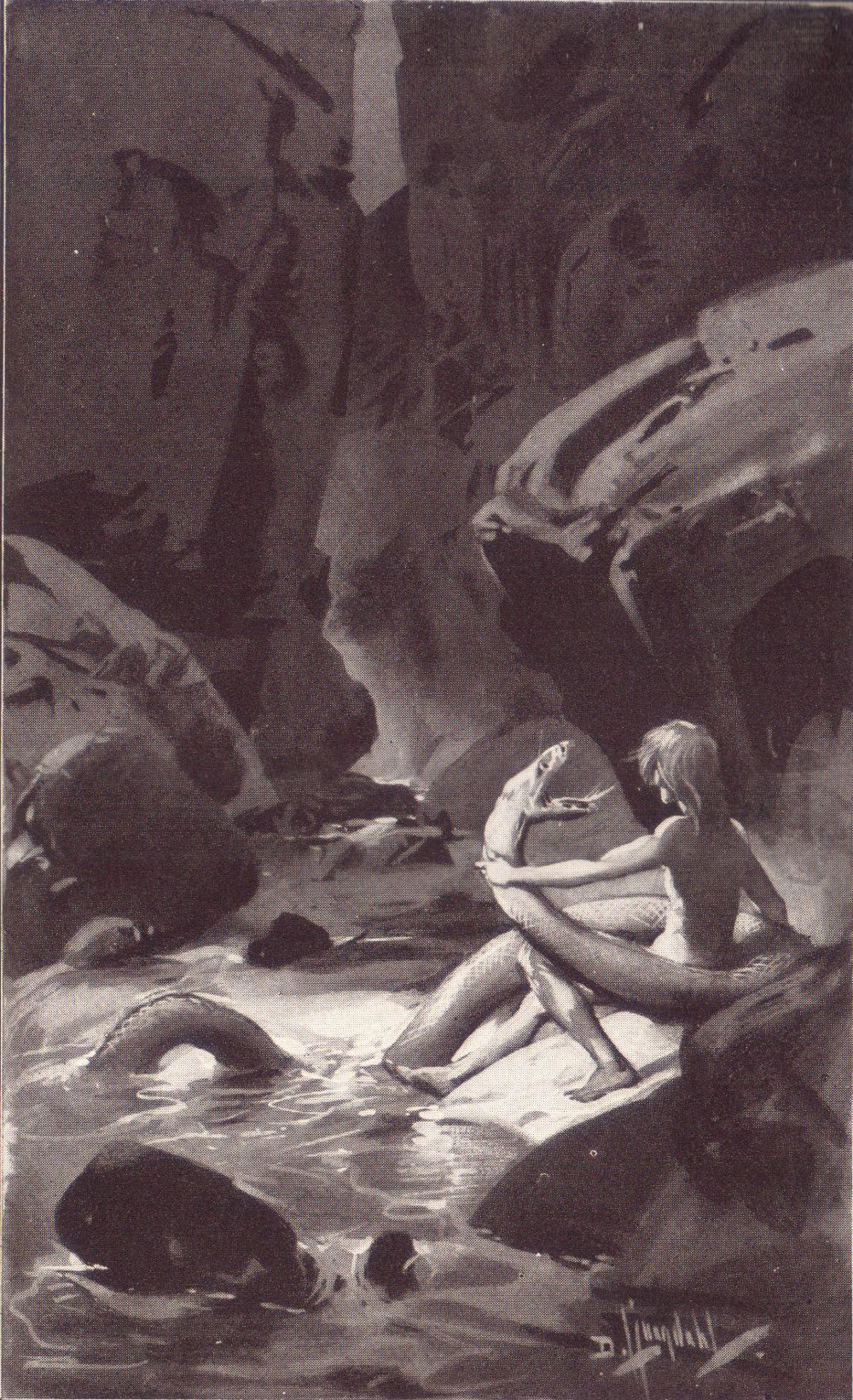 Illustration from "Red Dog" in Rudyard Kipling's The Second Jungle Book